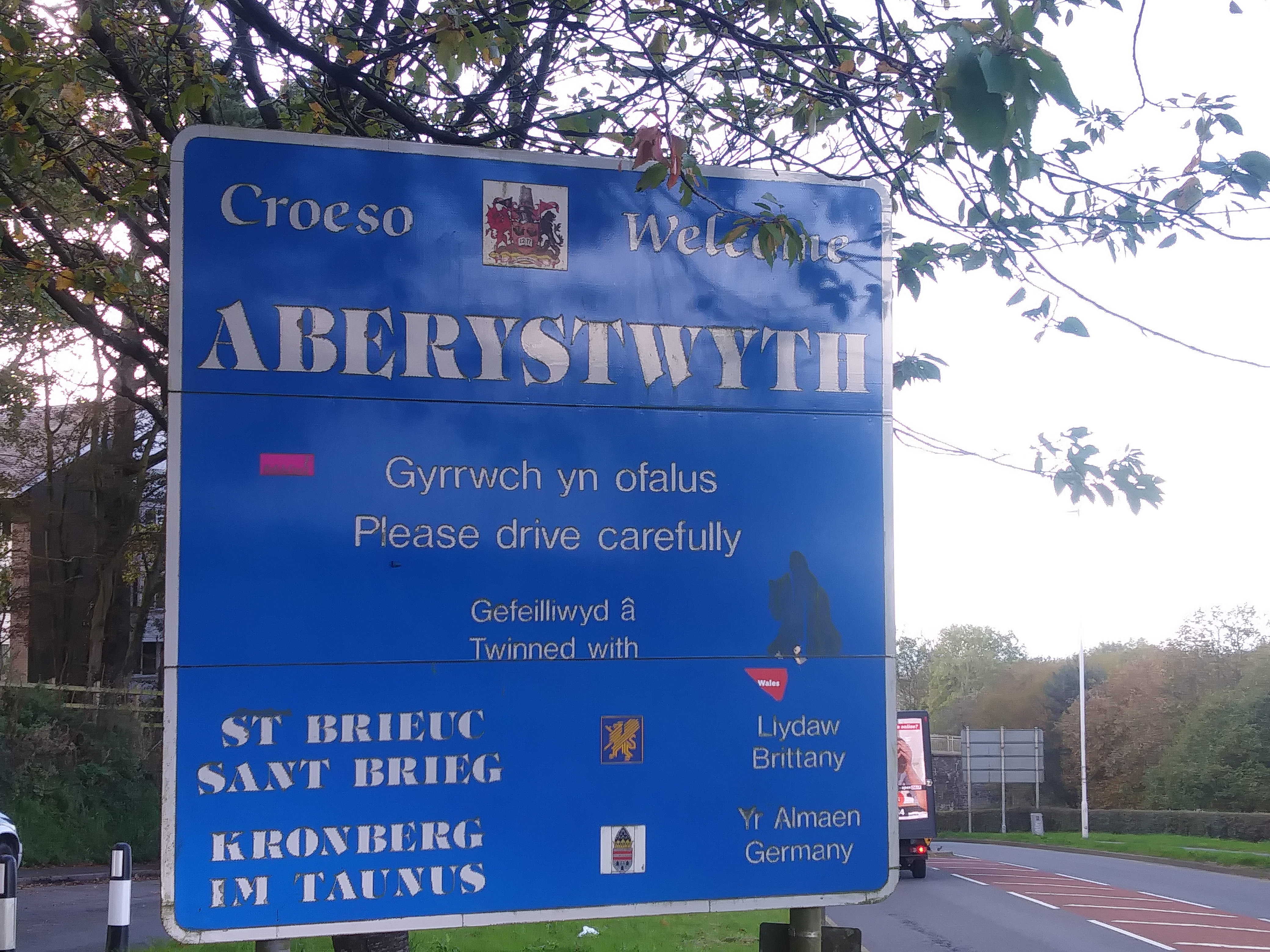 Aberystwyth road sign with names of twin towns, Saint Brieuc and Kronberg im Taunus